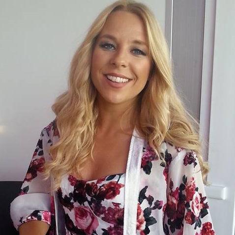 Finnish female singer Krista Siegfrids in May 2016.